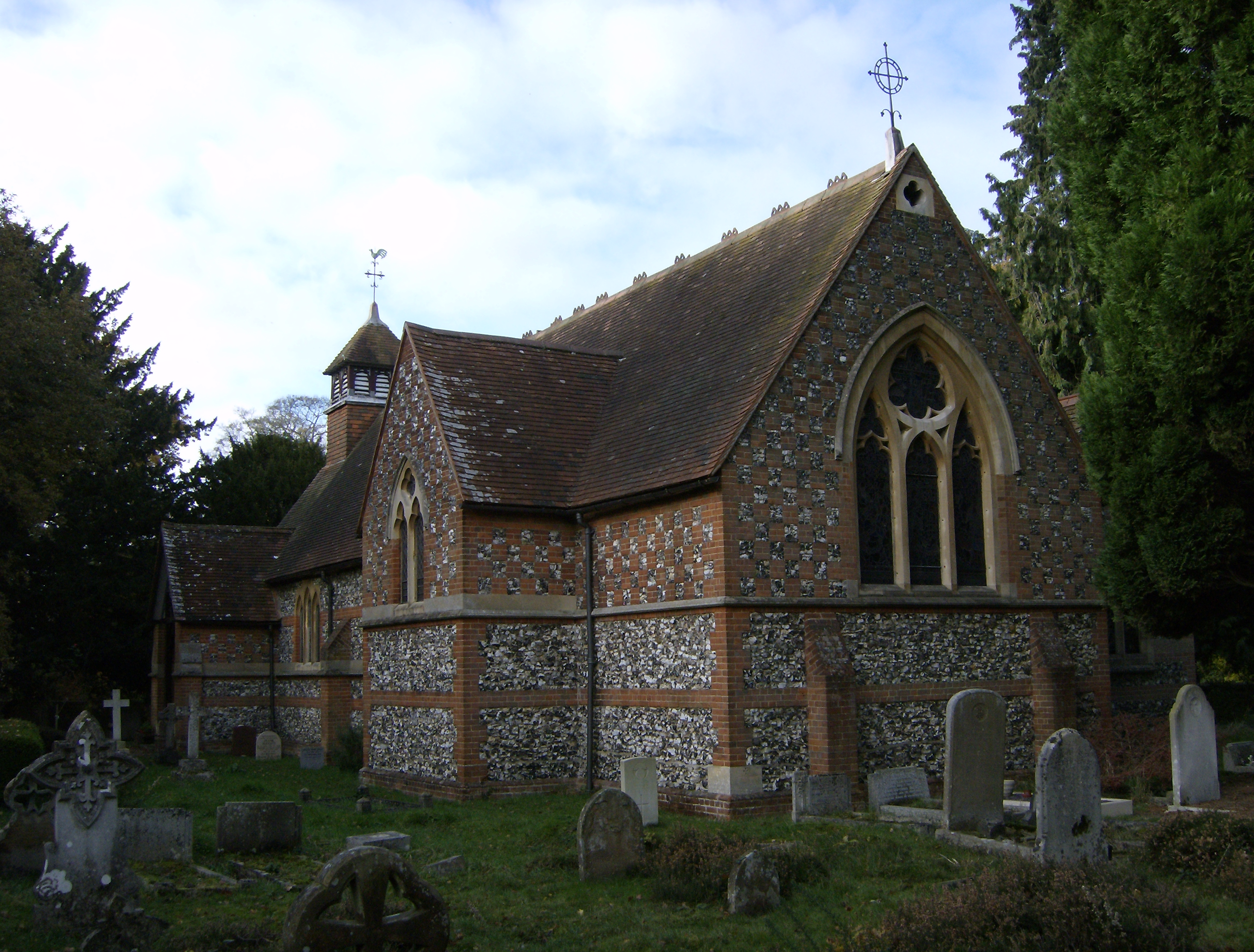 Church of England parish church of St Anne, Littleworth Common (Dropmore), South Bucks: view from the southeast